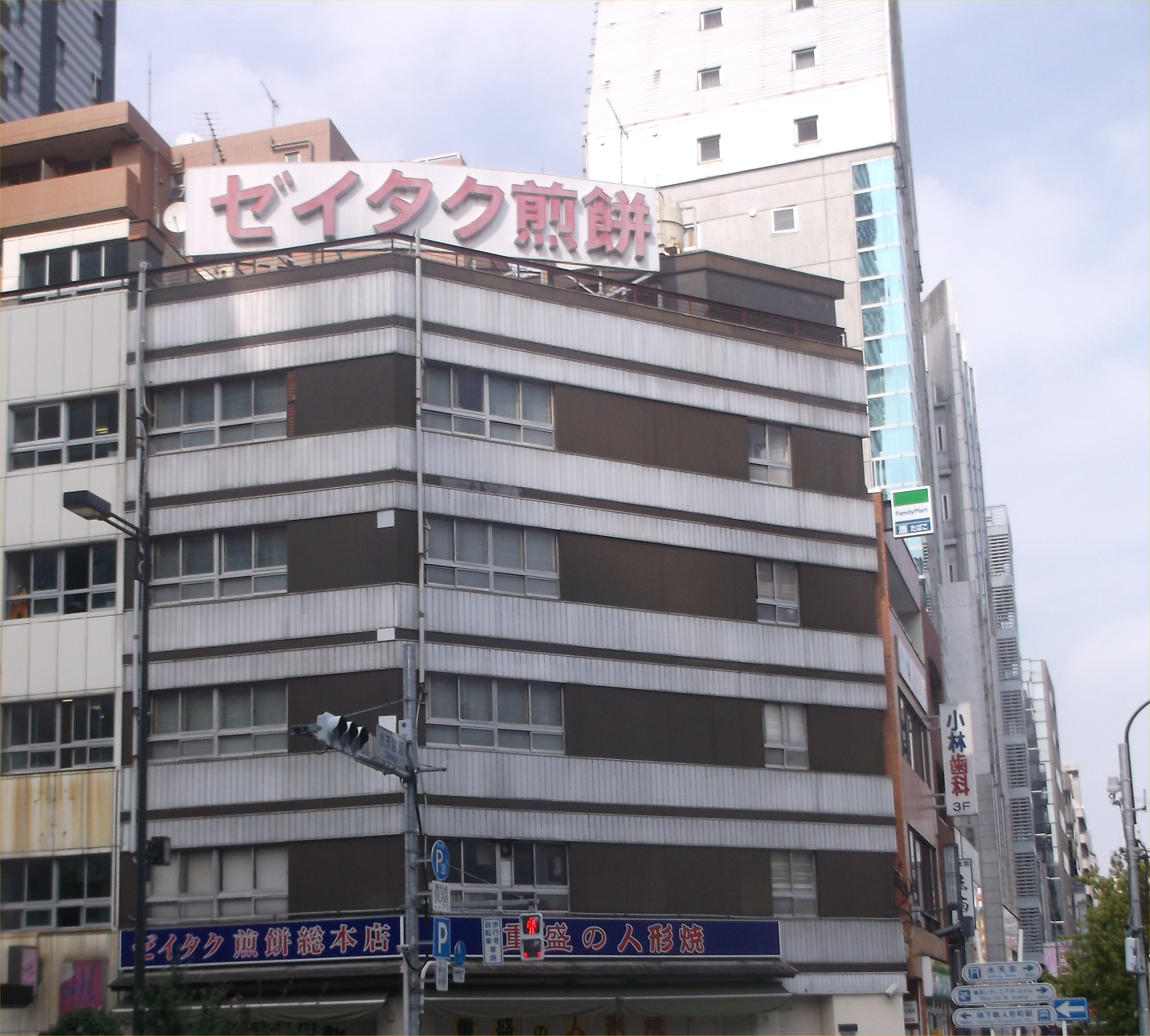 A photo of Sigemorieishido(famous for zeitaku senbei and ningyoyaki) head store,Nihonbashinngyocho,Cho-ku,Tokyo,Japan.